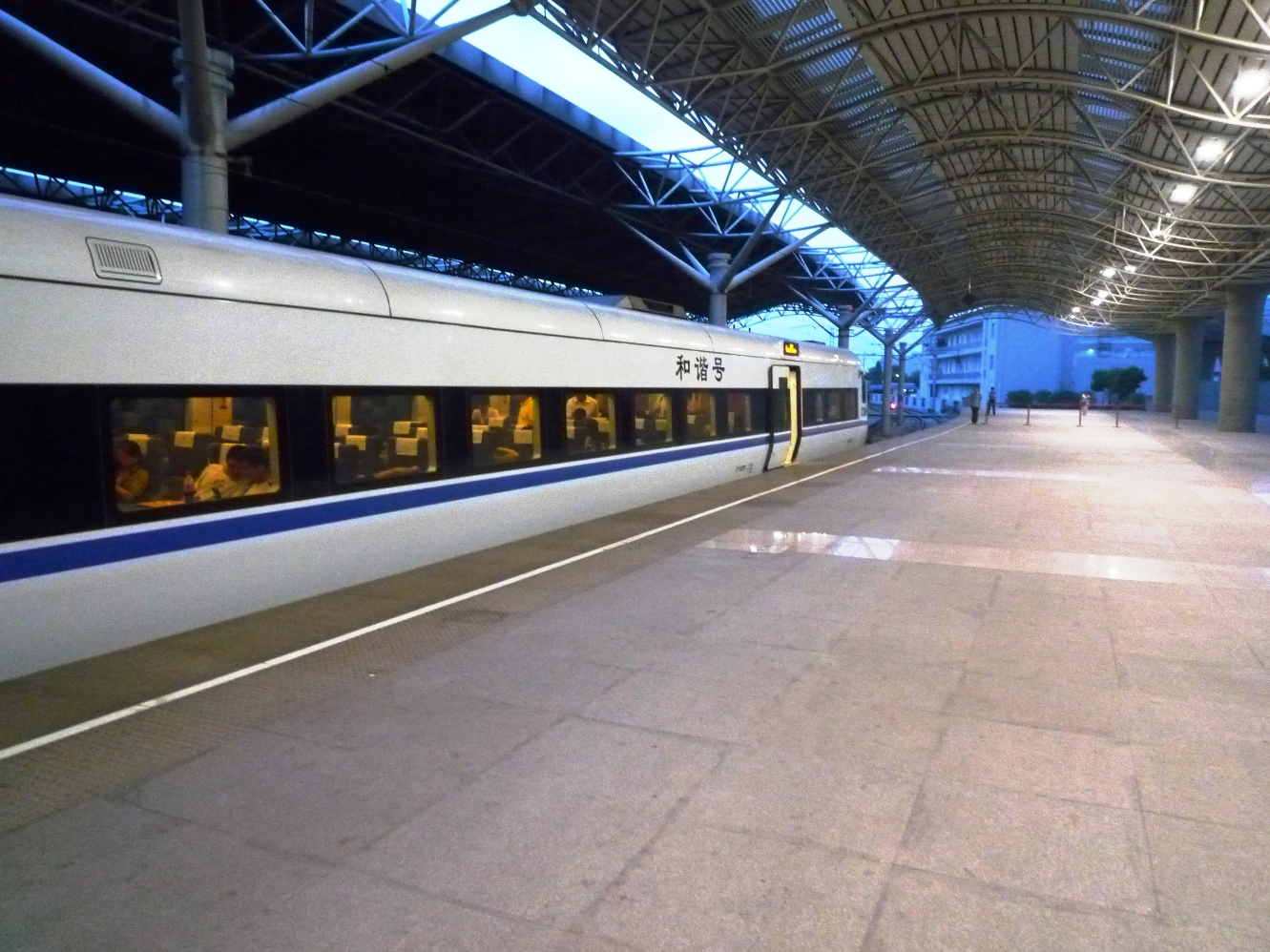 Shanghai_South_Railway_Station_Platform